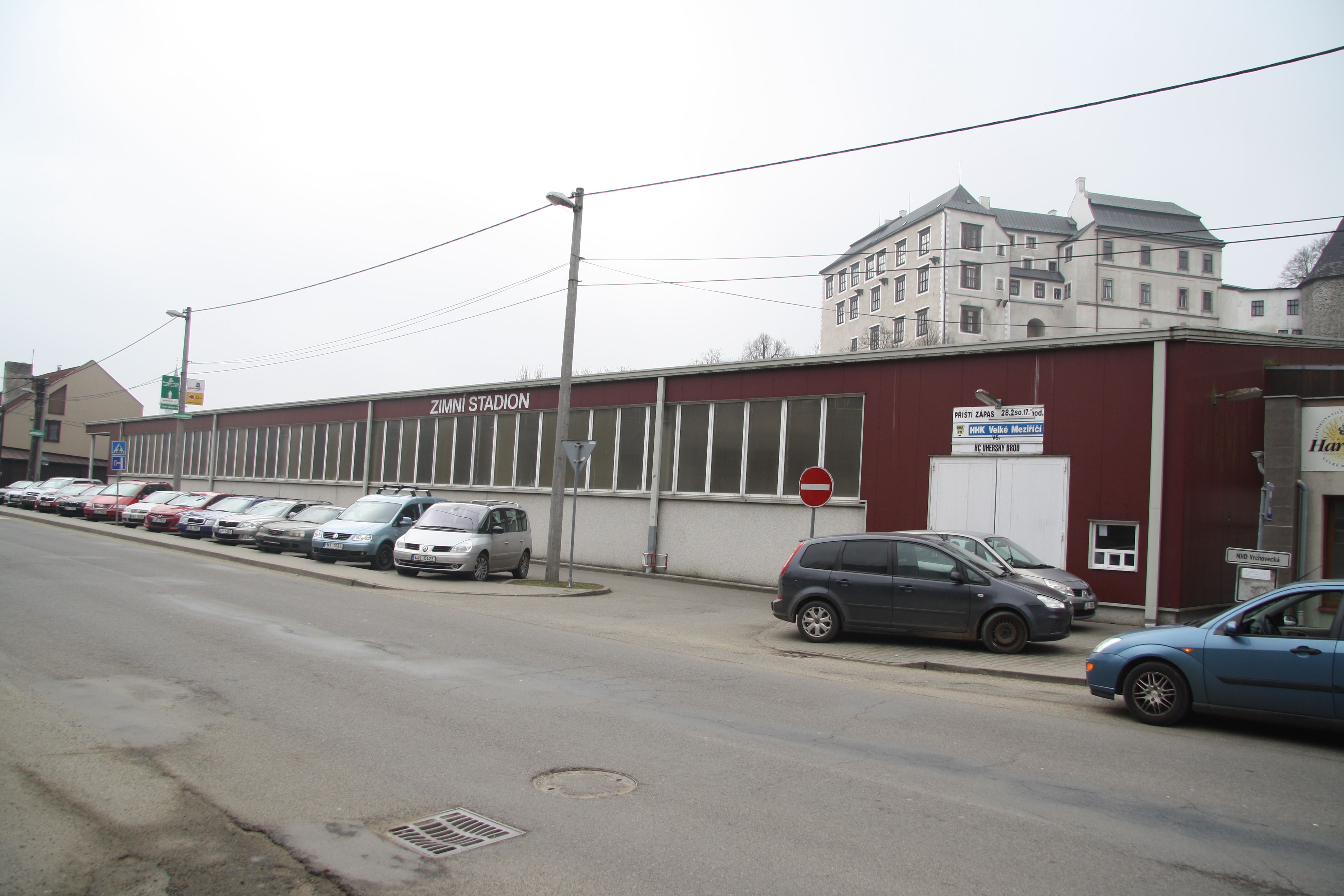 Overview of ice hockey venue in Velké Meziříčí, Žďár nad Sázavou District.